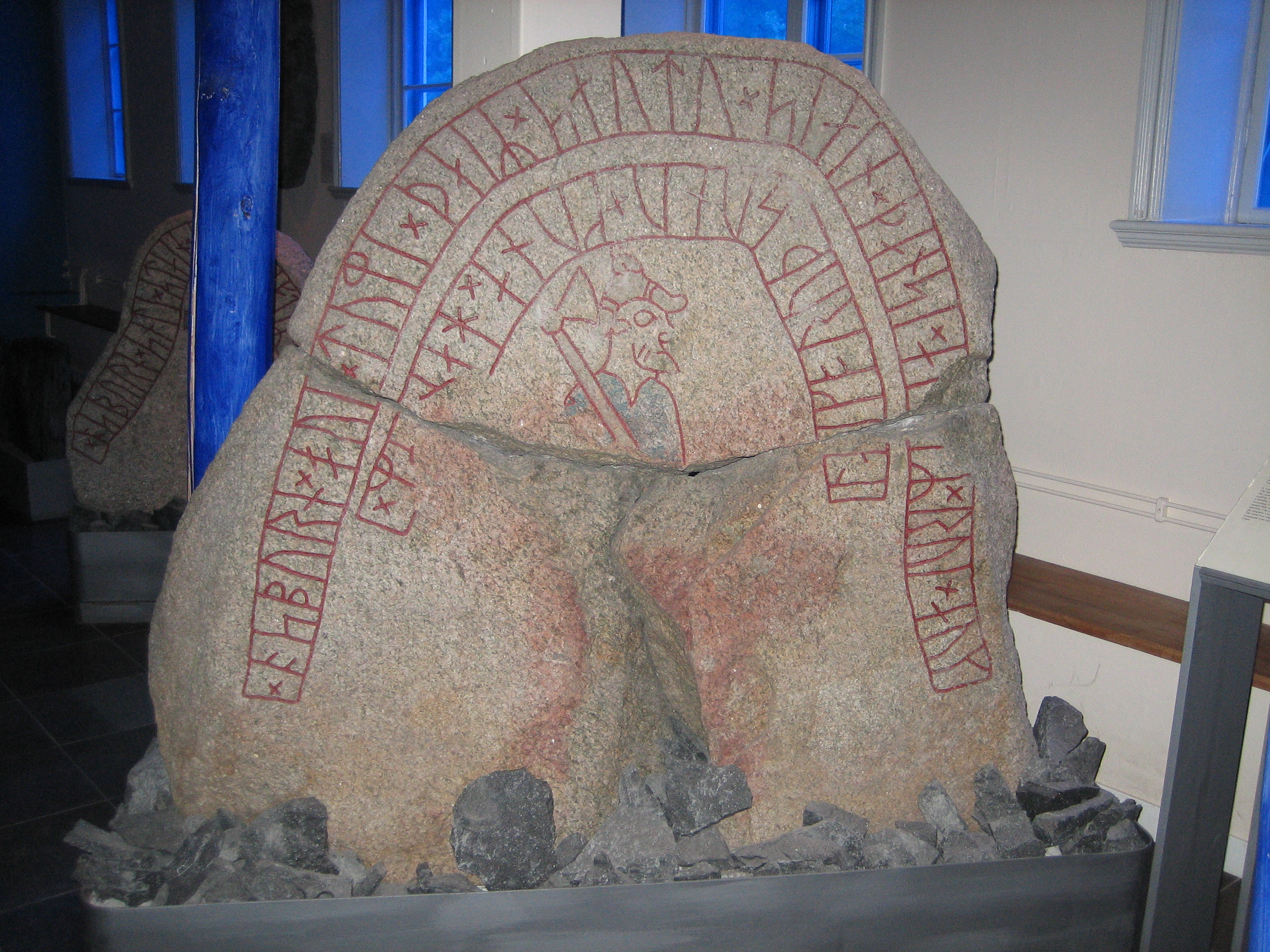 Runestone DR283 from the Hunnestad monument currently at display in Kulturen, Lund, Sweden (september 2008). Photo taken by the uploader 080903.